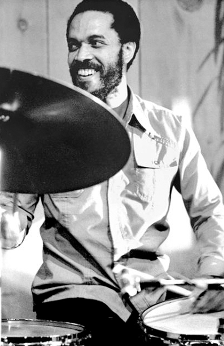 Billy Higgins in 1978. (photo: Brian McMillen / )